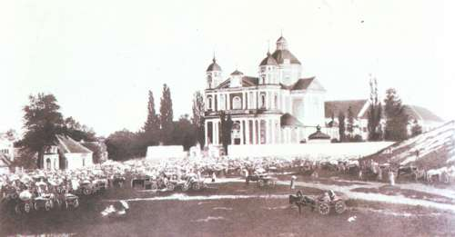 Petrines Fair in Antakalnis, 1892. Photo by Wincent Slendzinski